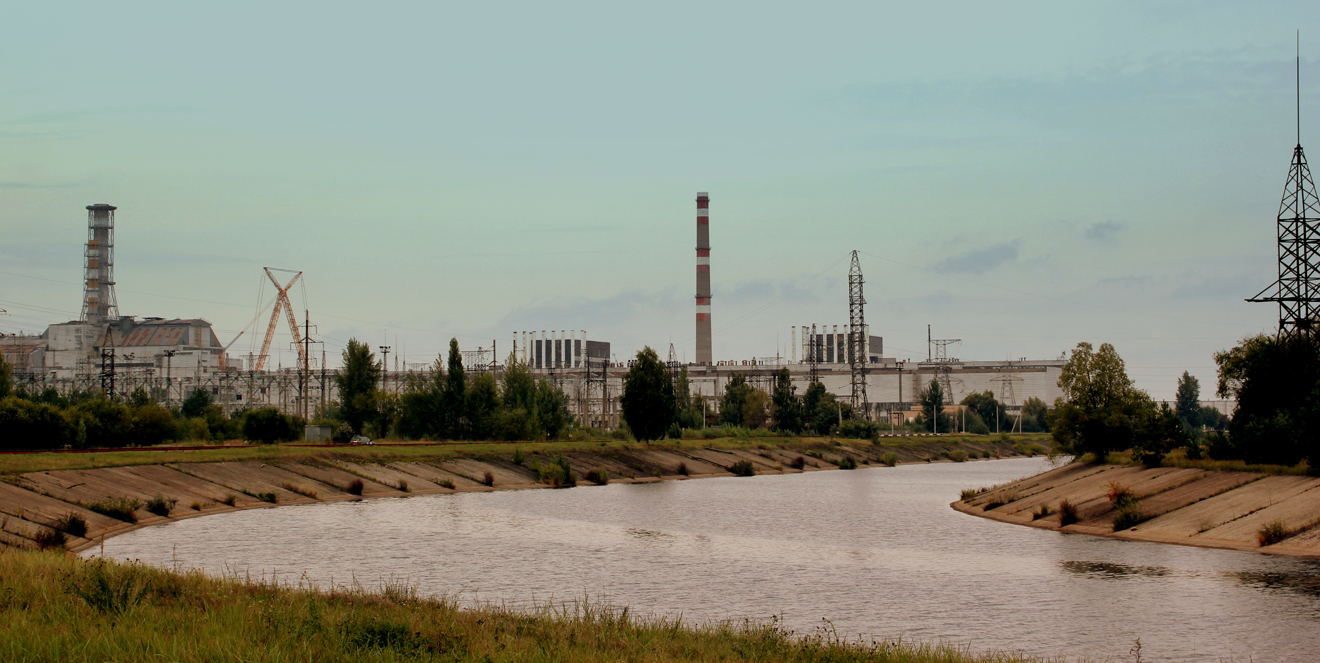 THE DOOMED NO4 REACTOR IS ON THE LEFT